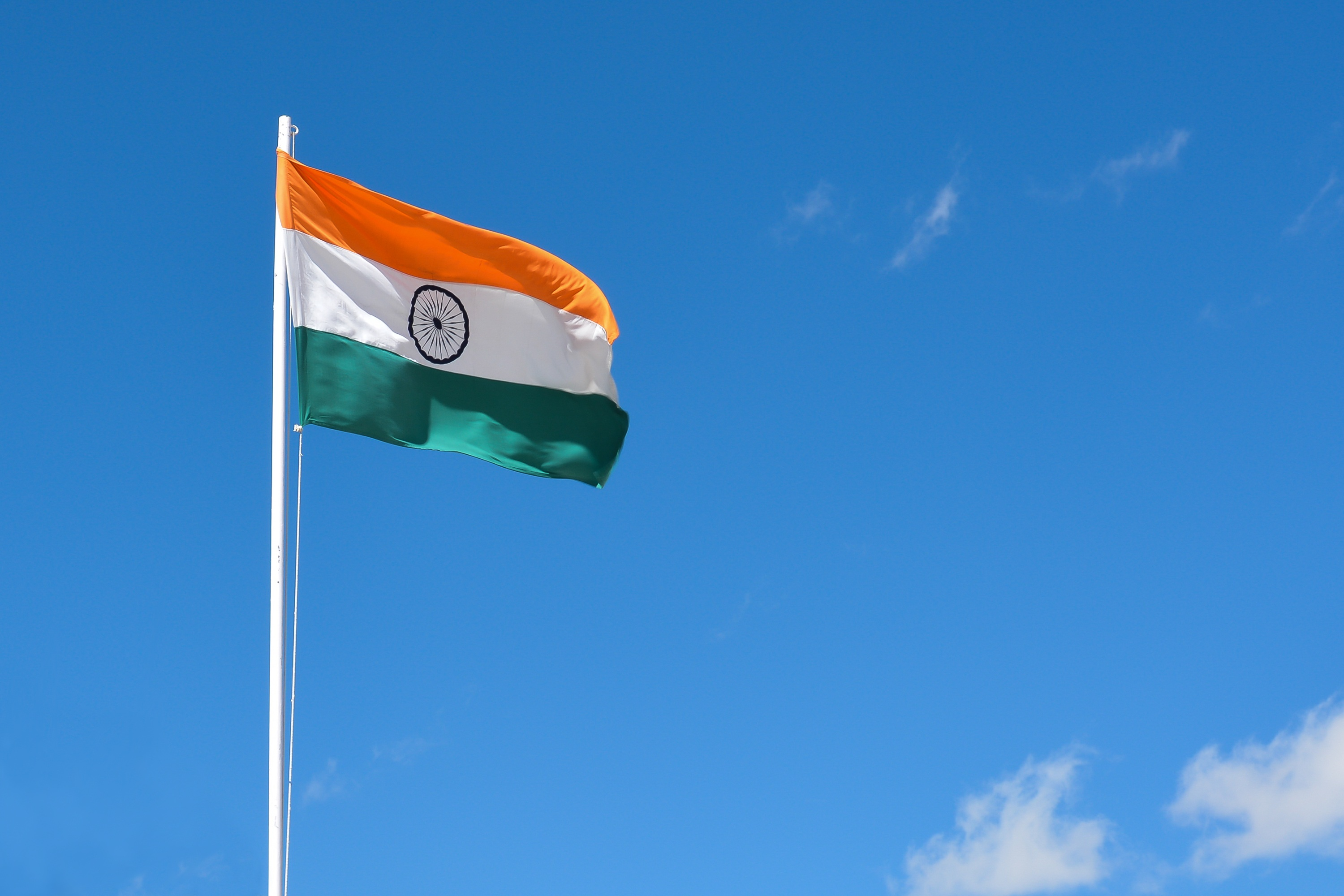 This flag represents the country of India. It consists of three colors in a horizontal fashion. The colors include saffron, white and green.